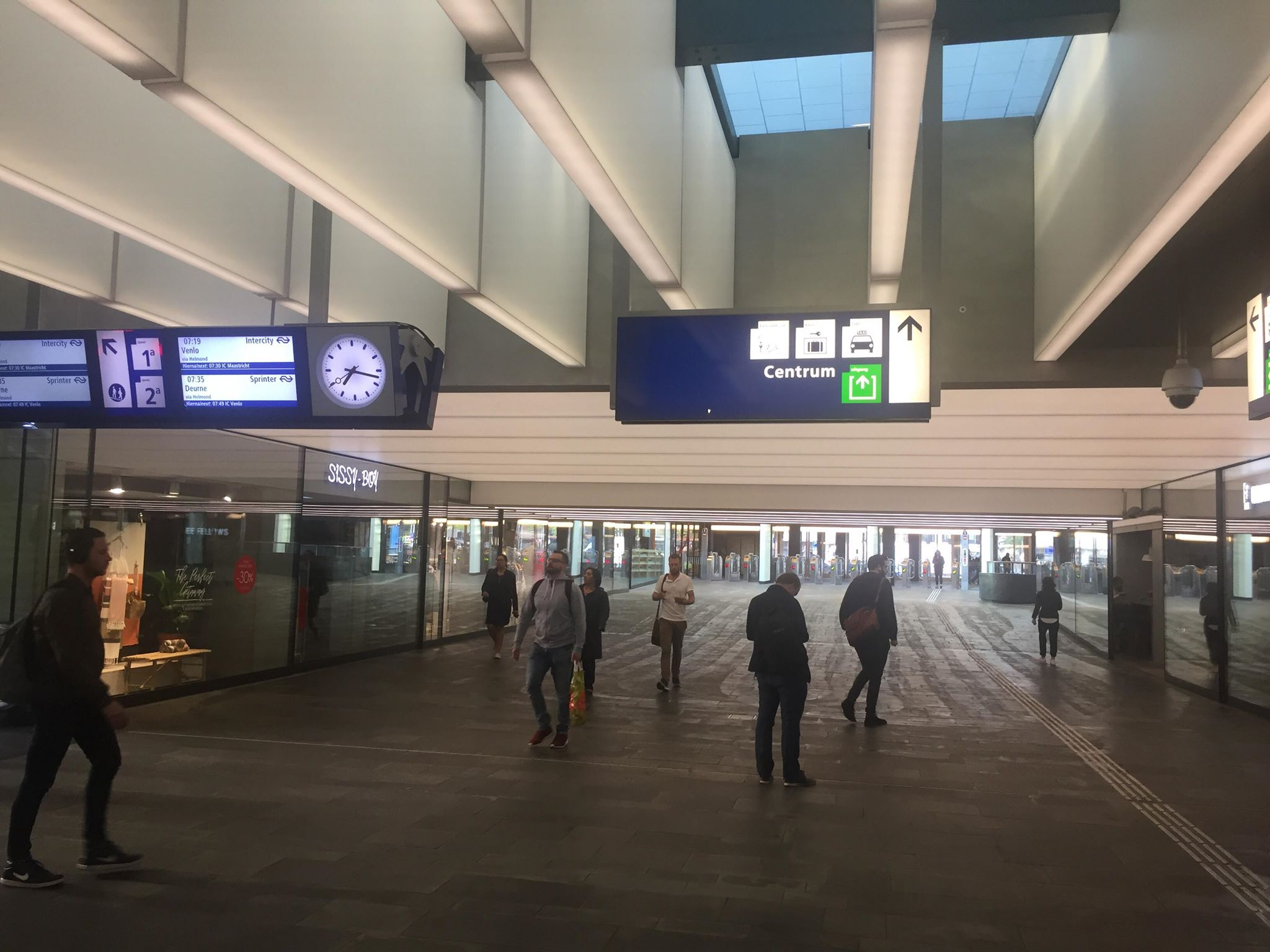 Railway Station in Eindhoven